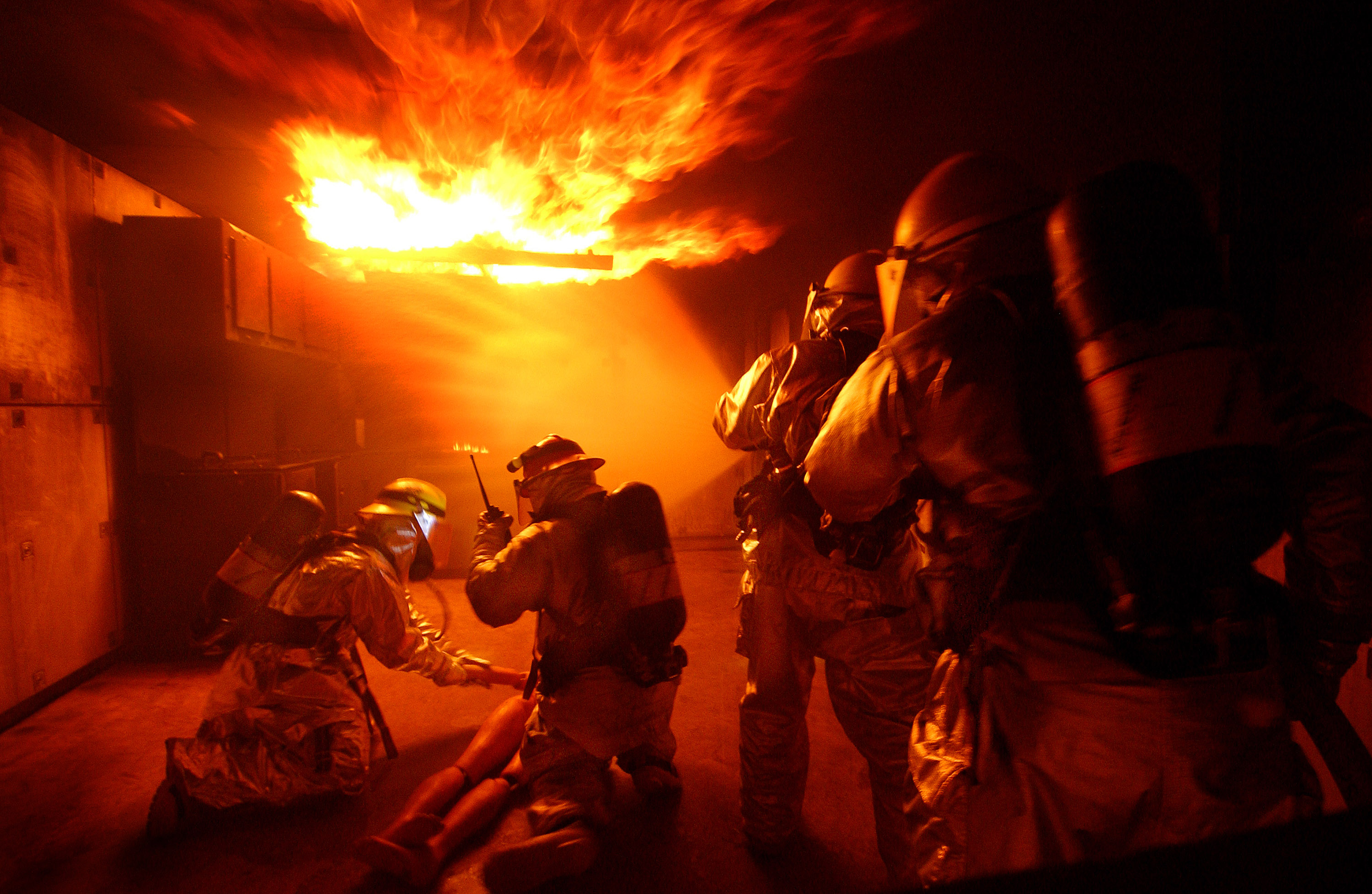 When you're hot, you're hot! Airmen from the 18th Civil Engineer Squadron Fire Department conduct training at the Silver Flag area of Kadena Air Base, Japan, Dec. 2 during Beverly High 09-01, a local operational readiness exercise to test the readiness of Kadena's 18th Wing Airmen. (U.S. Air Force photo/Tech. Sgt. Rey Ramon) Česky: Výcvik požárníků na americké letecké základně Kadena v Japonsku